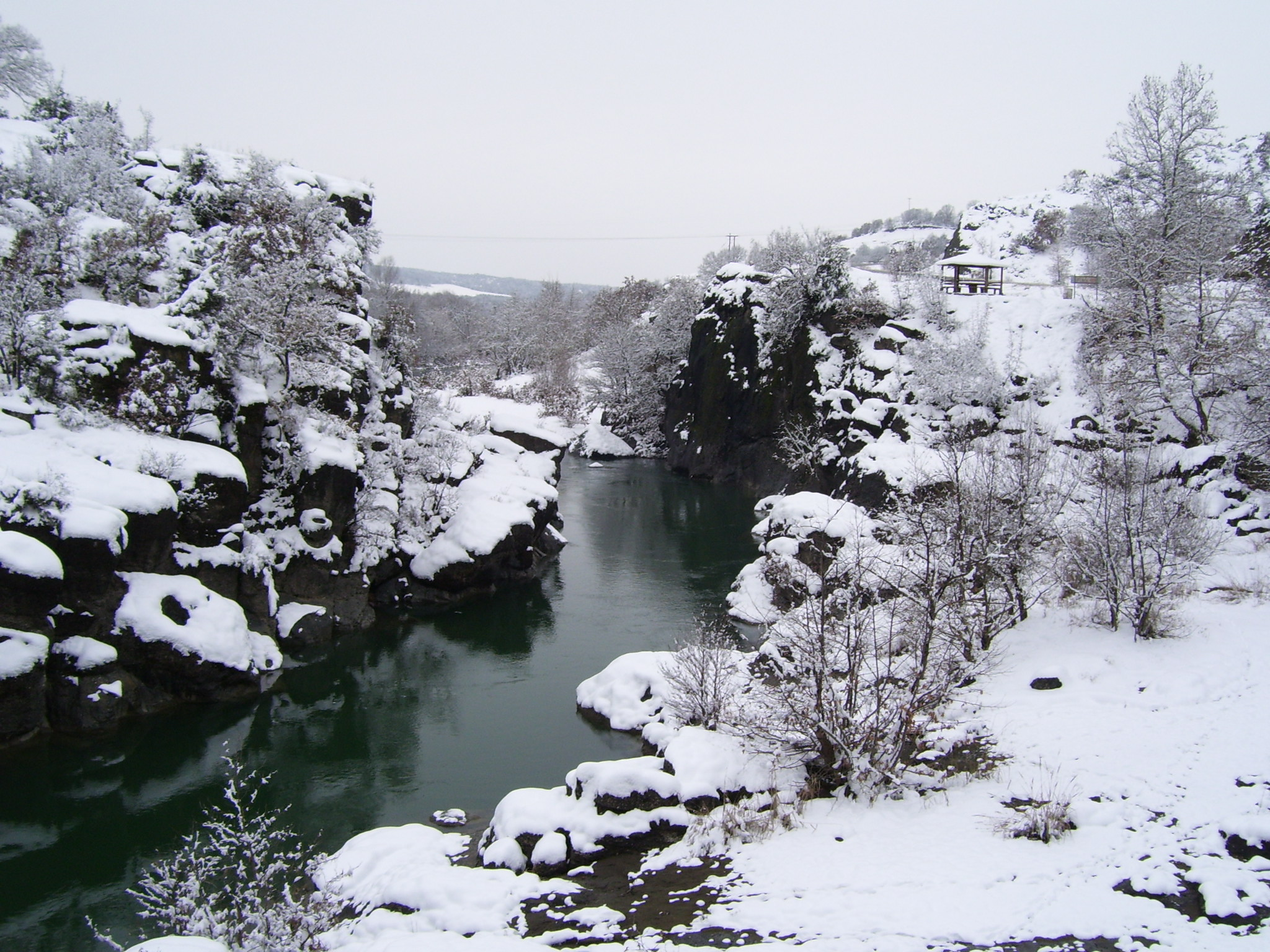 Venetikos river, south of Grevena